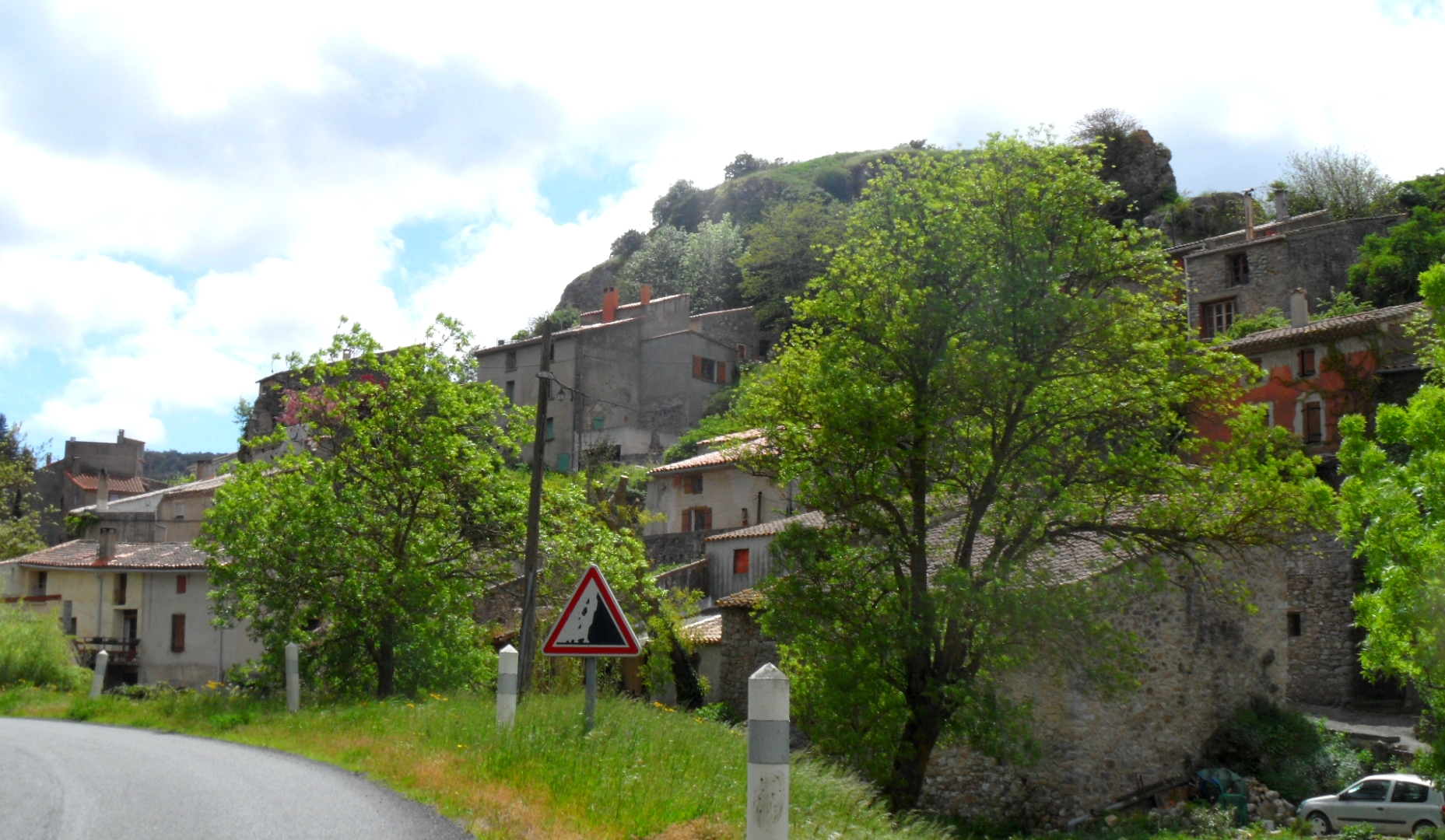 Laroque-de-Fa, Aude, France